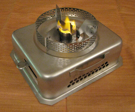 The CleanCook stove also comes with one burner. The canister is exactly the same, still holding 1.2 liters and cooking for 4.5 hours—enough to satisfy a typical family’s cooking needs for one day. The CleanCook stove also comes with one burner. The canister is exactly the same, still holding 1.2 liters and cooking for 4.5 hours—enough to satisfy a typical family’s cooking needs for one day.